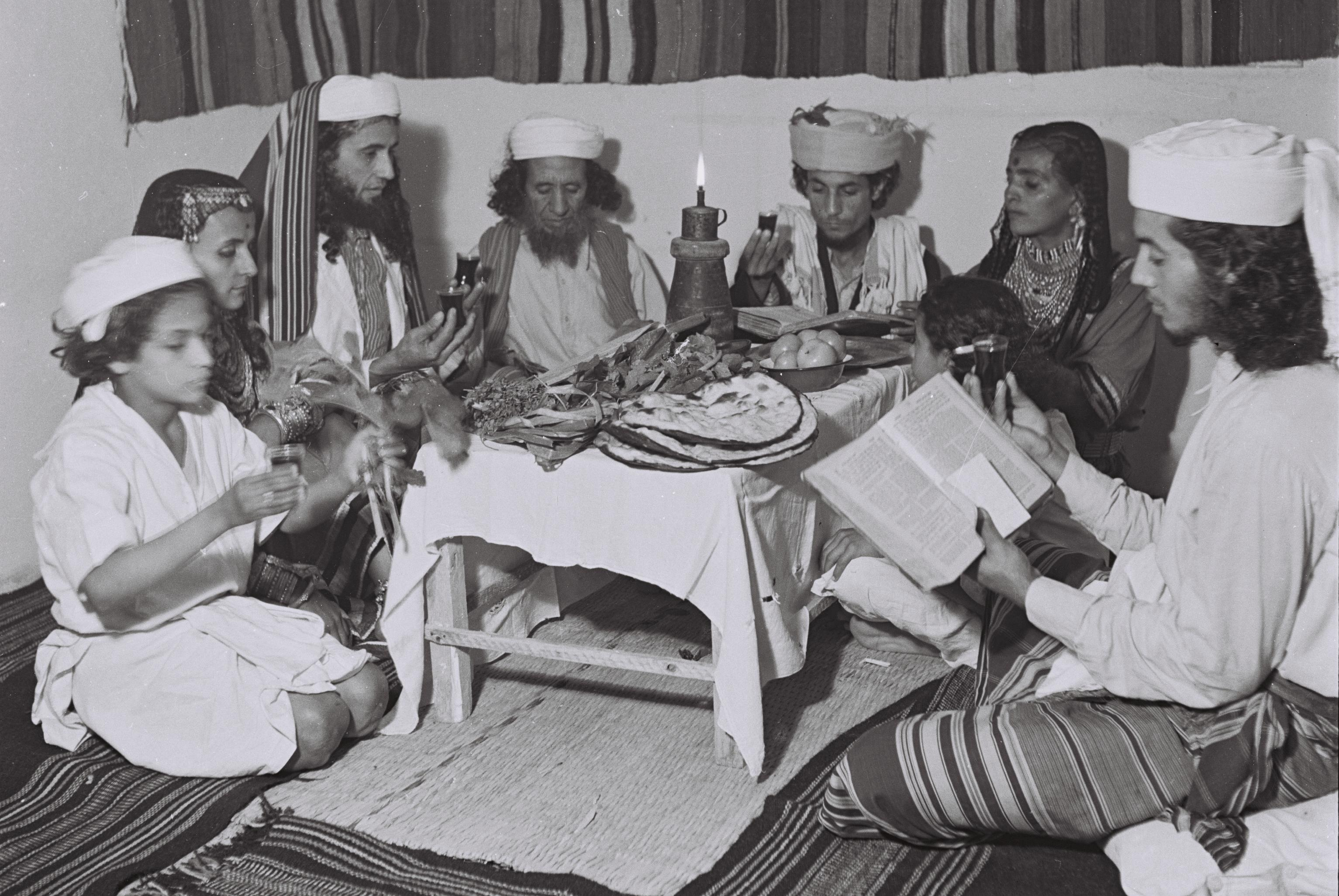 A YEMENITE HABANI FAMILY CELEBRATING THE PASSOVER SEDER AT THEIR NEW HOME IN TEL AVIV. משפחת עולים חבנים מתימן חוגגת סדר פסח מסורתי בתל אביב.